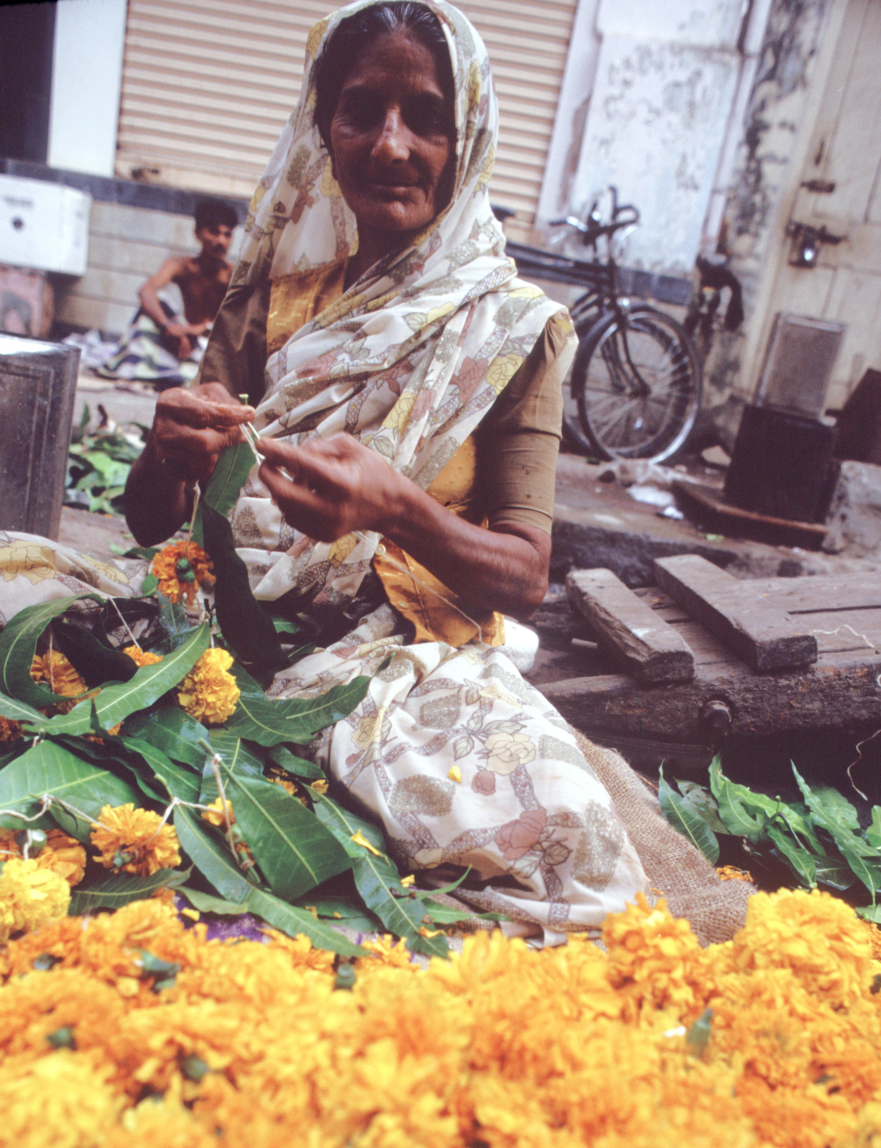 Woman stringing together marigolds for Diwali, Mumbai 2002.